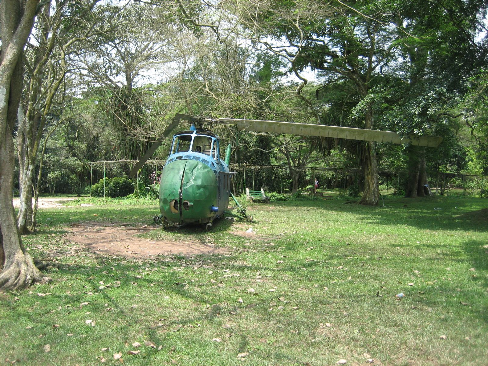 An helicopter in Aburi Botanical gardens